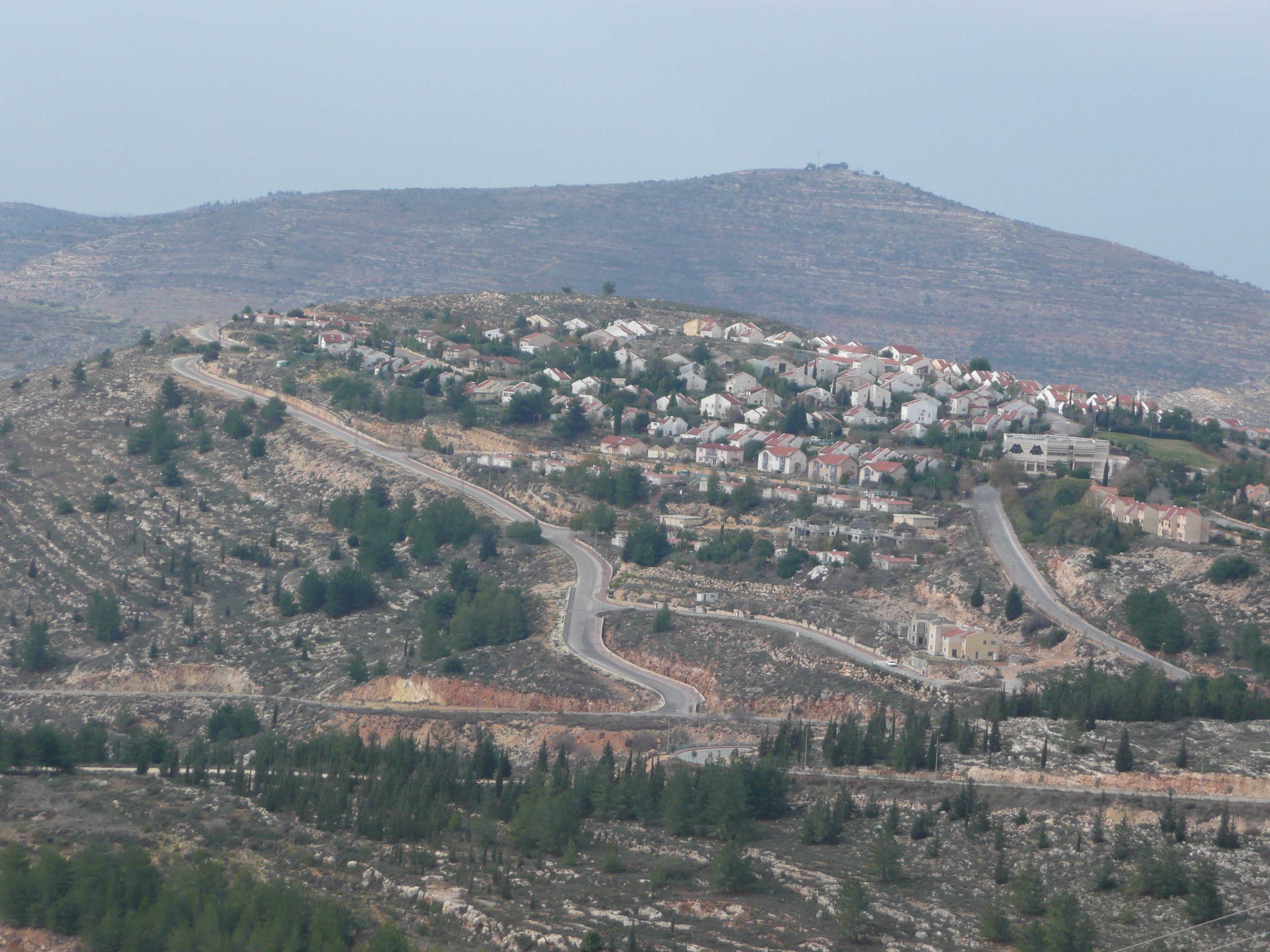 A hilltop picture of the Jewish town of Eli in the Shomron, West Bank, Israel.